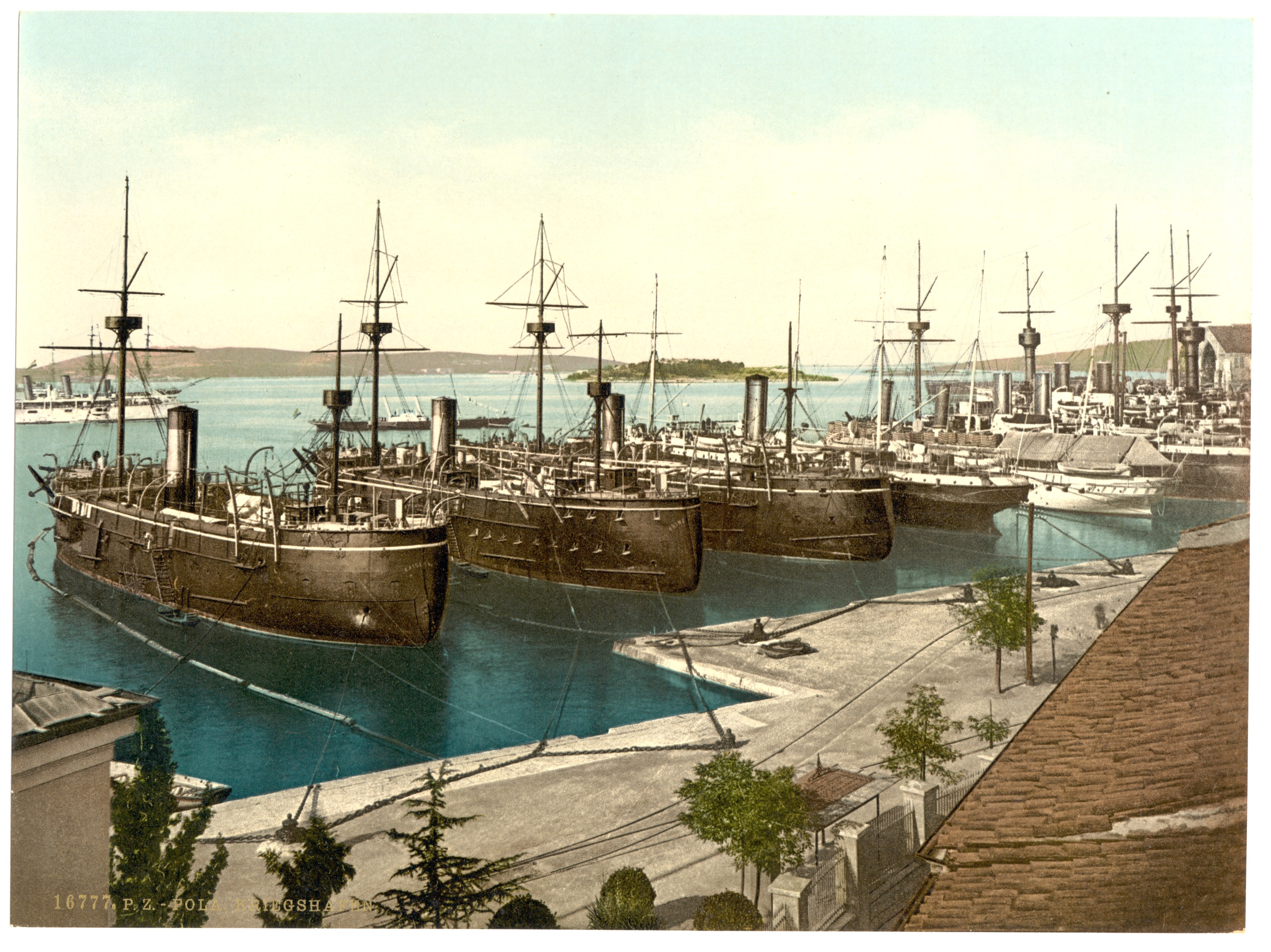 Forms part of: Views of the Austro-Hungarian Empire in the Photochrom print collection.; Title from the Detroit Publishing Co., Catalogue J-foreign section, Detroit, Mich. : Detroit Publishing Company, 1905.; Print no. "16777".